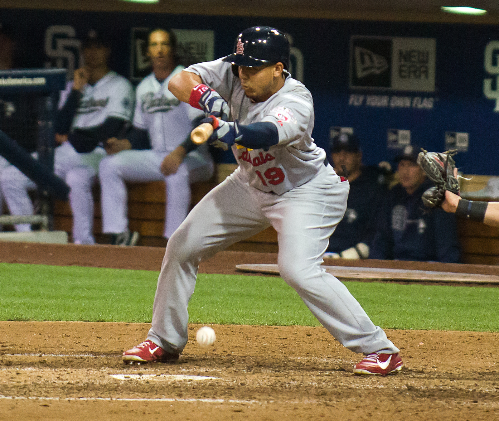 Jon Jay major league baseball player for the St. Louis Cardinals Sept. 11 2012 at Petco Park in San Diego California